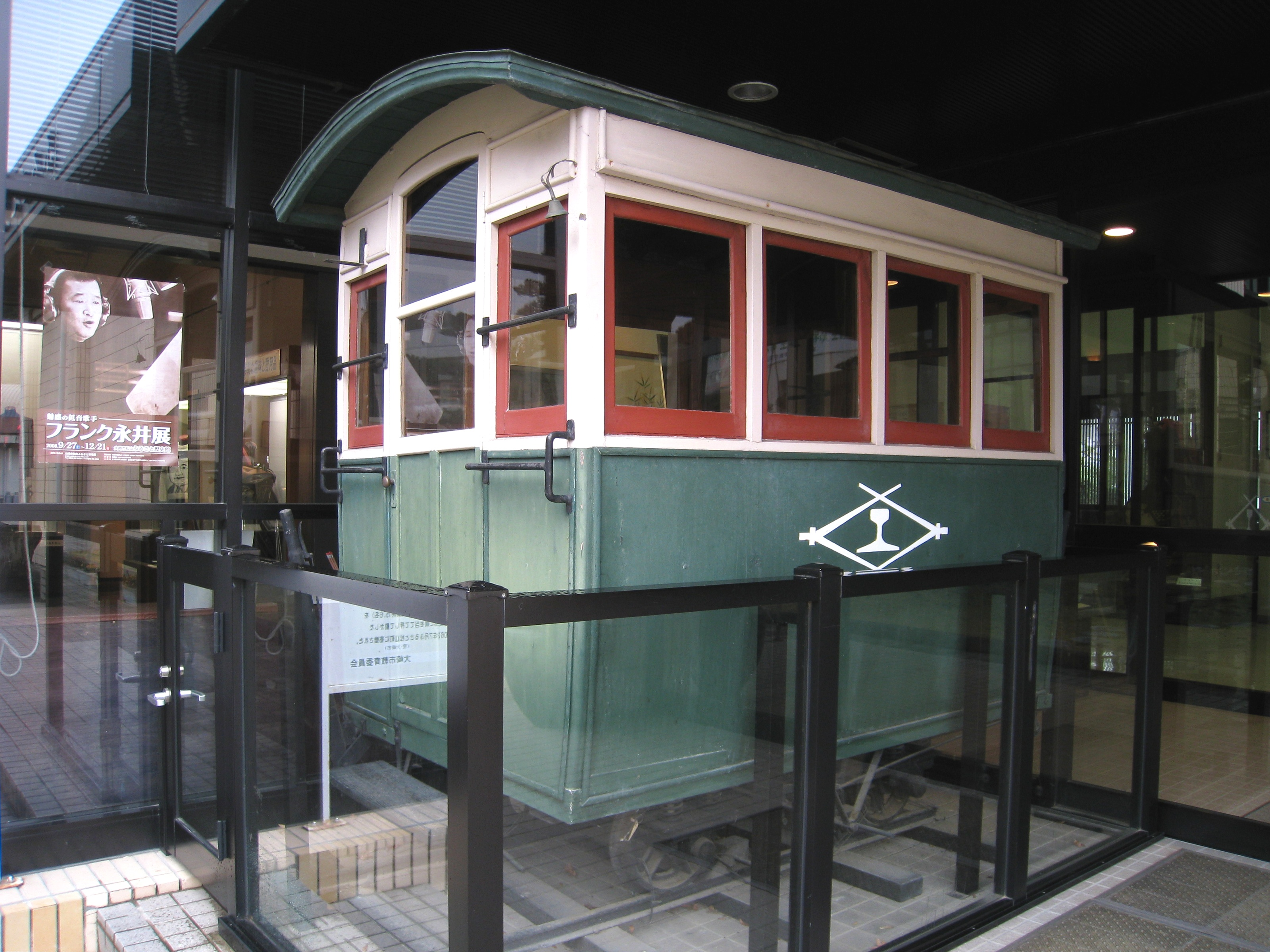 Photograph of restored handcar of Matsuyama Handcar Tramway, exhibited by Osaki City Matsuyama Furusato History Museum, is museum in Osaki City, Miyagi Prefecture. photo date and time 14:59 November 20, 2008